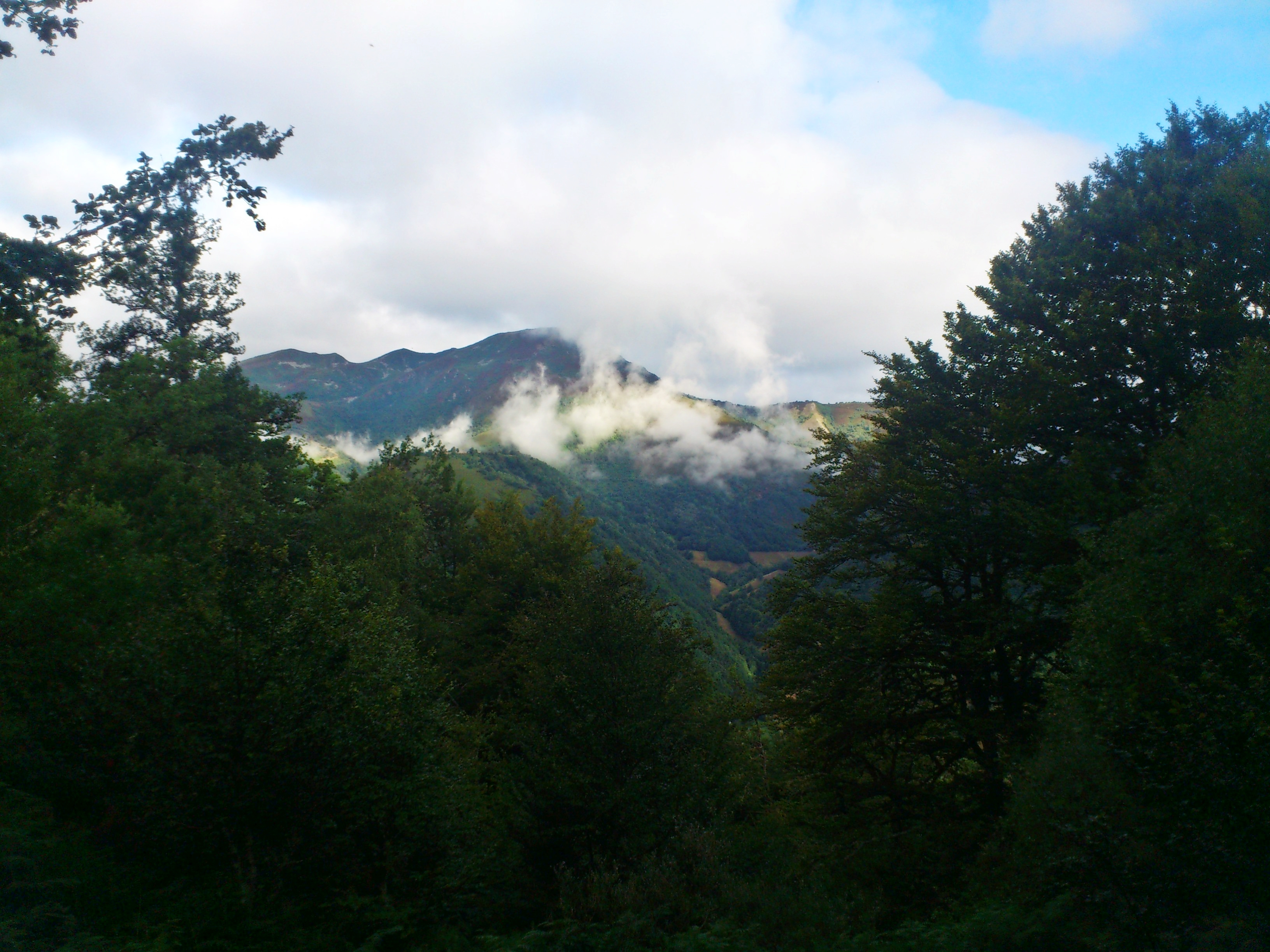 Montañas de Cerredo en el Valle de Degaña